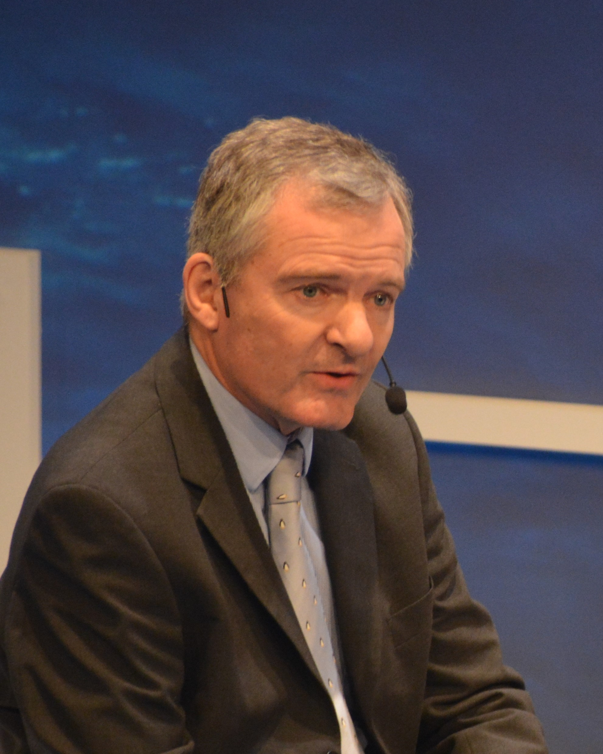 Julian Dowdwswell,, glaciologist, Scott Polar Research Institute, United Kingdom